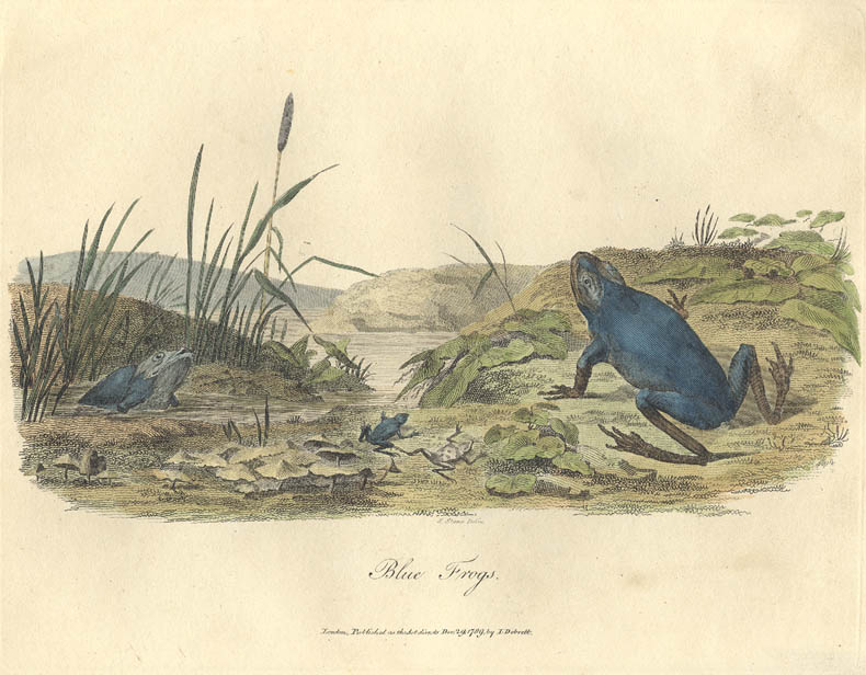 The original print of White's tree frog, from John White's A Journal of a Voyage to New South Wales. The specimen sent to the illustrator was blue because of the preservative.